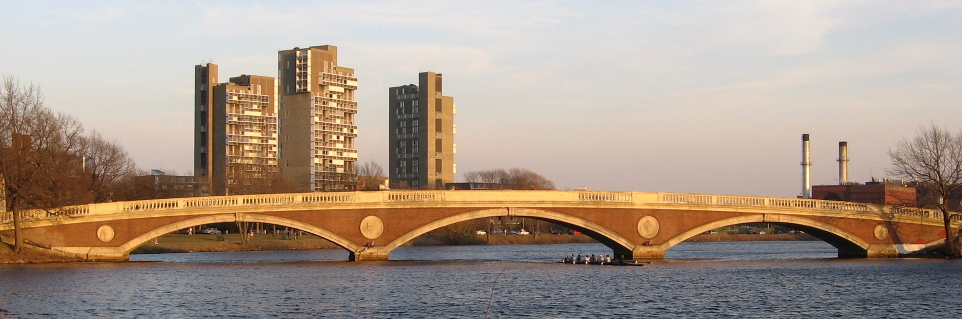 John W. Weeks Footbridge, Cambridge MA